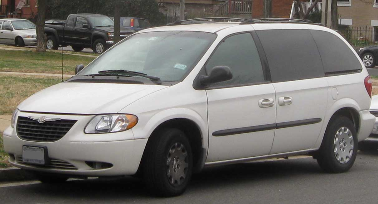 2001-2003 Chrysler Voyager photographed in Washington, D.C., USA.